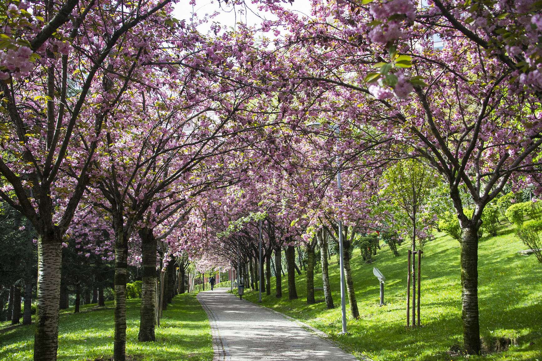 Sakura Tree Blossom at Turkey/Ankara/Dikmen Vâdisi (Spring, 2015)